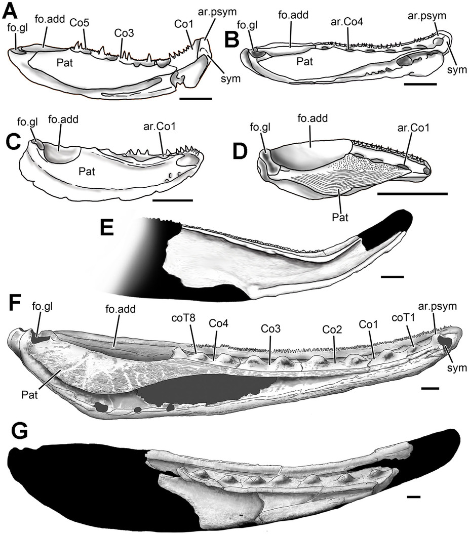 Except for Megamastax, all are from the Lochkovian Xitun Formation, Qujing, eastern Yunnan, China. (A) Psarolepis romeri, IVPP V8138 (reversed). (B) Achoania jarviki, IVPP V12492.1 (reversed). (C) Jaw tentatively assigned to Meemannia eos, IVPP V14536.5. (D) Styloichthys changae, IVPP V8143.1. (E) Partial dentary of an indeterminable osteichthyan, IVPP V12493 (reversed). (F) Megamastax amblyodus, IVPP V18499.1 (holotype), dark grey = matrix-filled areas. (G) Megamastax amblyodus, IVPP V18499.2 with restored silhouette in black. (A–G) drawn by B.C. ar.psym, knob-like parasymphysial articular structure; ar.Co1–4, articulation for coronoid 1–4; Co1–5, coronoid 1–5; coT1–8, 1st–8th coronoid tooth; fo.add, adductor fossa; fo.gl, glenoid fossa; Pat, Prearticular; sym, area for parasymphysial tooth plate. Scale bars = 5 mm.